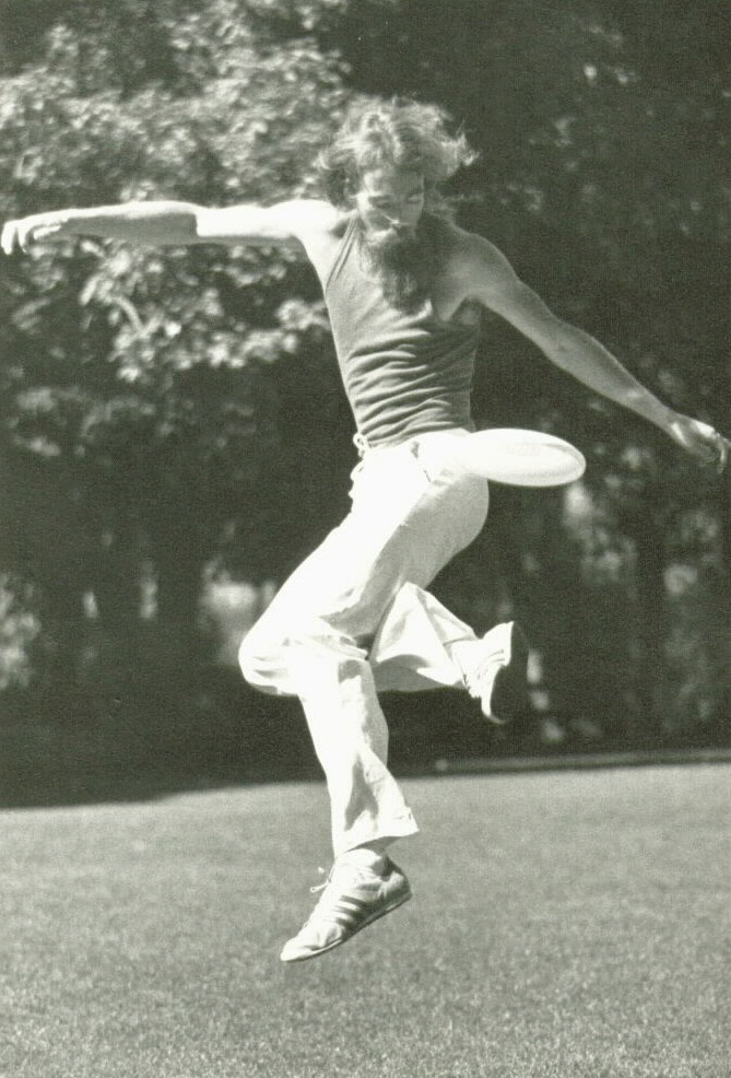 Ken Westerfield doing a Freestyle Frisbee Heel Kick in Delaveaga Park Santa Cruz California.